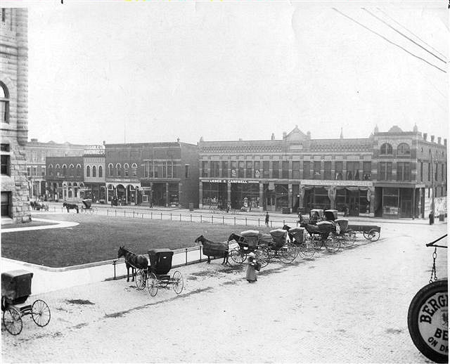 The courthouse square in Hartford City, Indiana around 1908. Small building on far right is Kirshbaum Building, large building is Briscoe Block, building to left of Briscoe is Dowell Block, buildings to left of Dowell were later torn down and replaced.